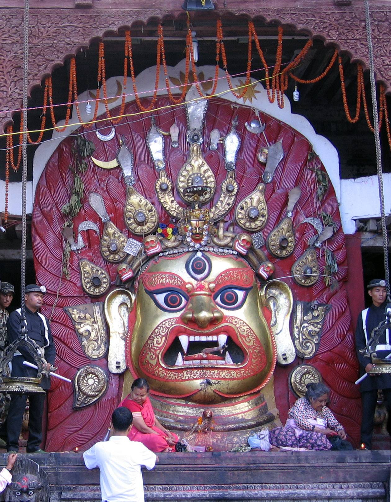 Great mask of Sweta Bhairava at Kathmandu Durbar Square, Nepal.